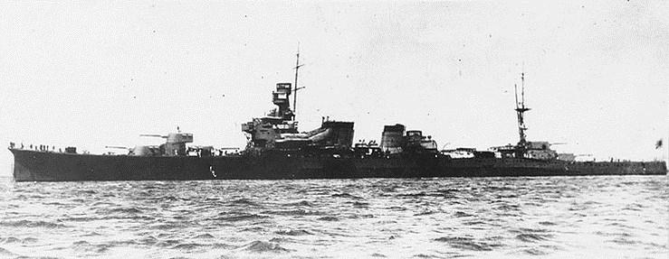 Heavy cruiser Kako after completion.